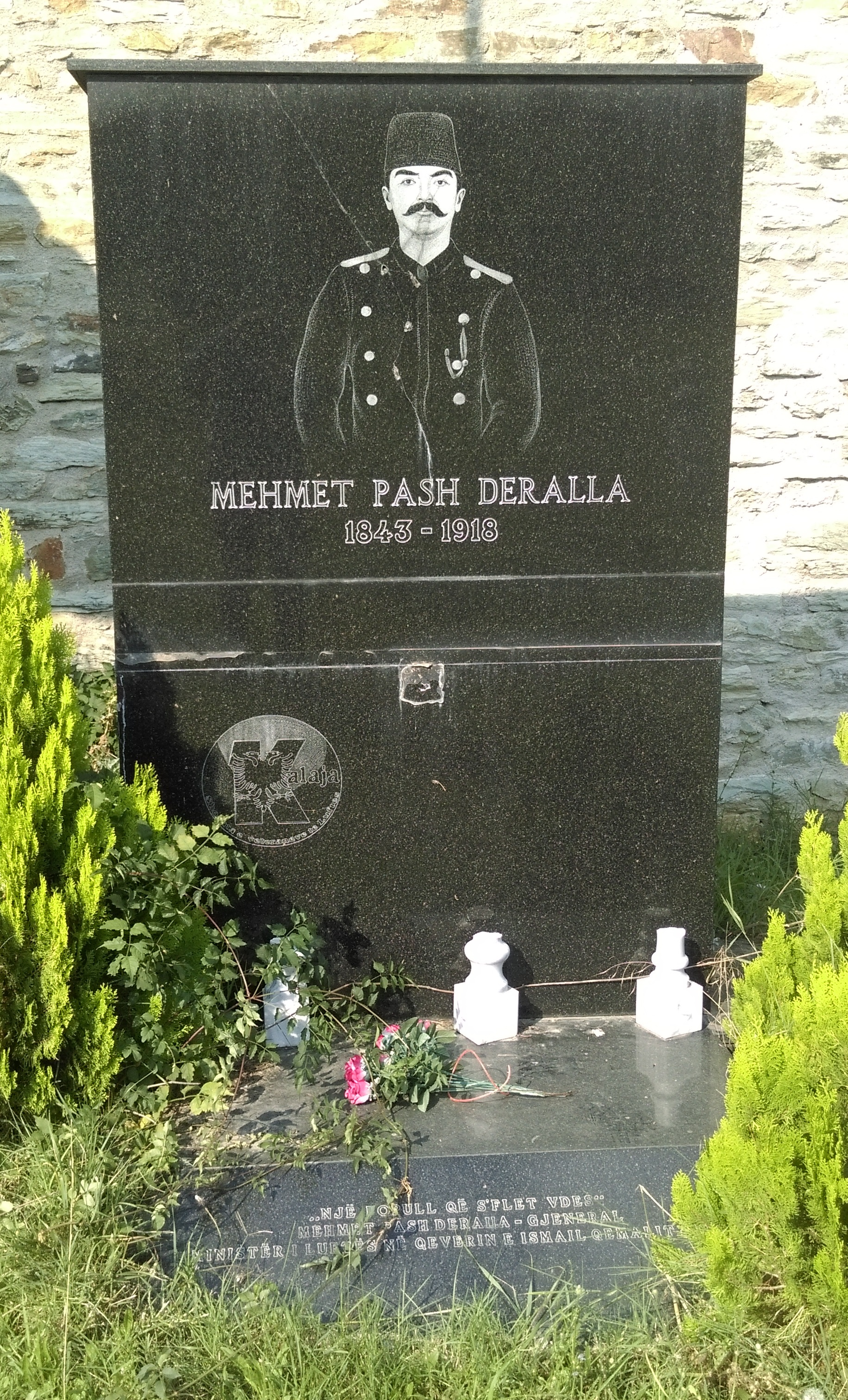 Monument dedicated to Mehmet Pashë Dërralla, located at the Harabati Tekke in Tetovo